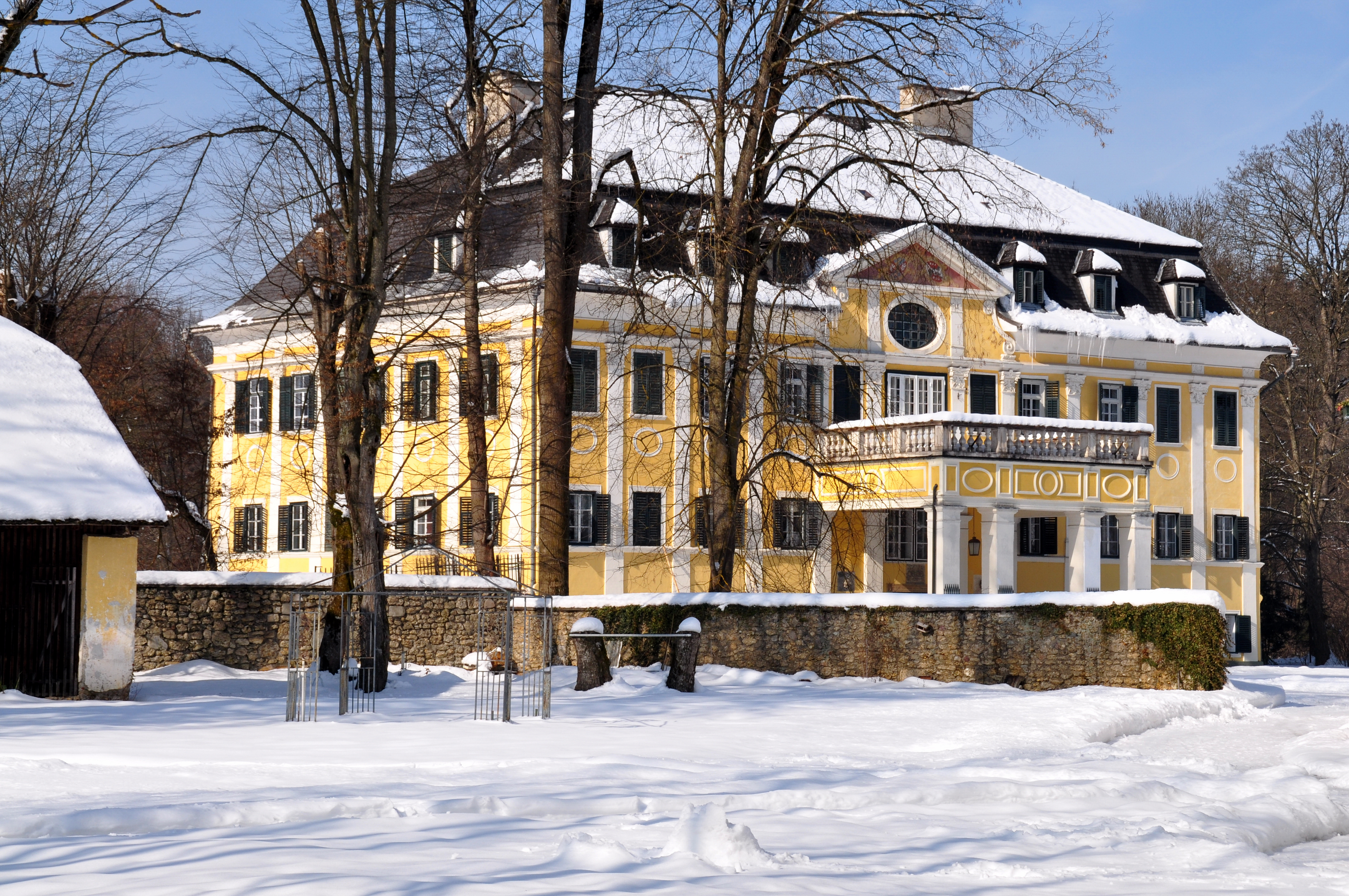 Castle Ebenthal (propriety of the Earls of Goëss), municipality Ebenthal, district Klagenfurt-Land, Carinthia, Austria